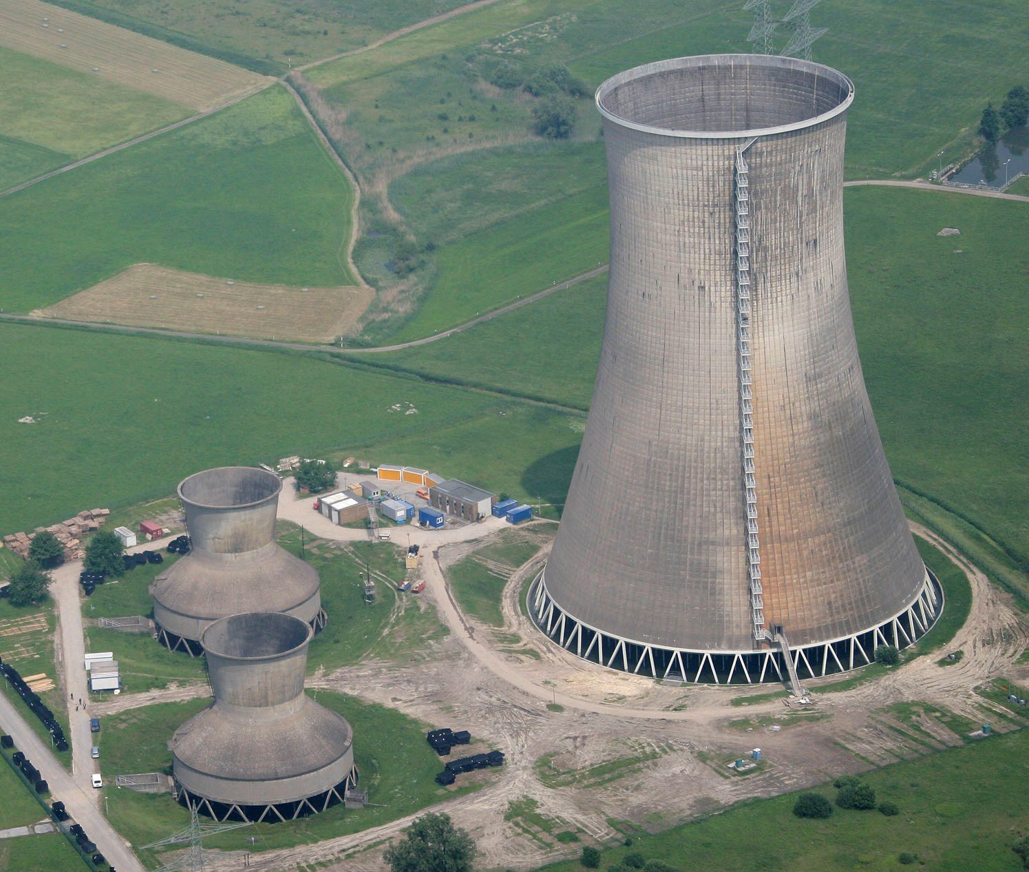 Ventilation cooling towers (forced draft) and natural draft cooling tower located at power station Westfalen.